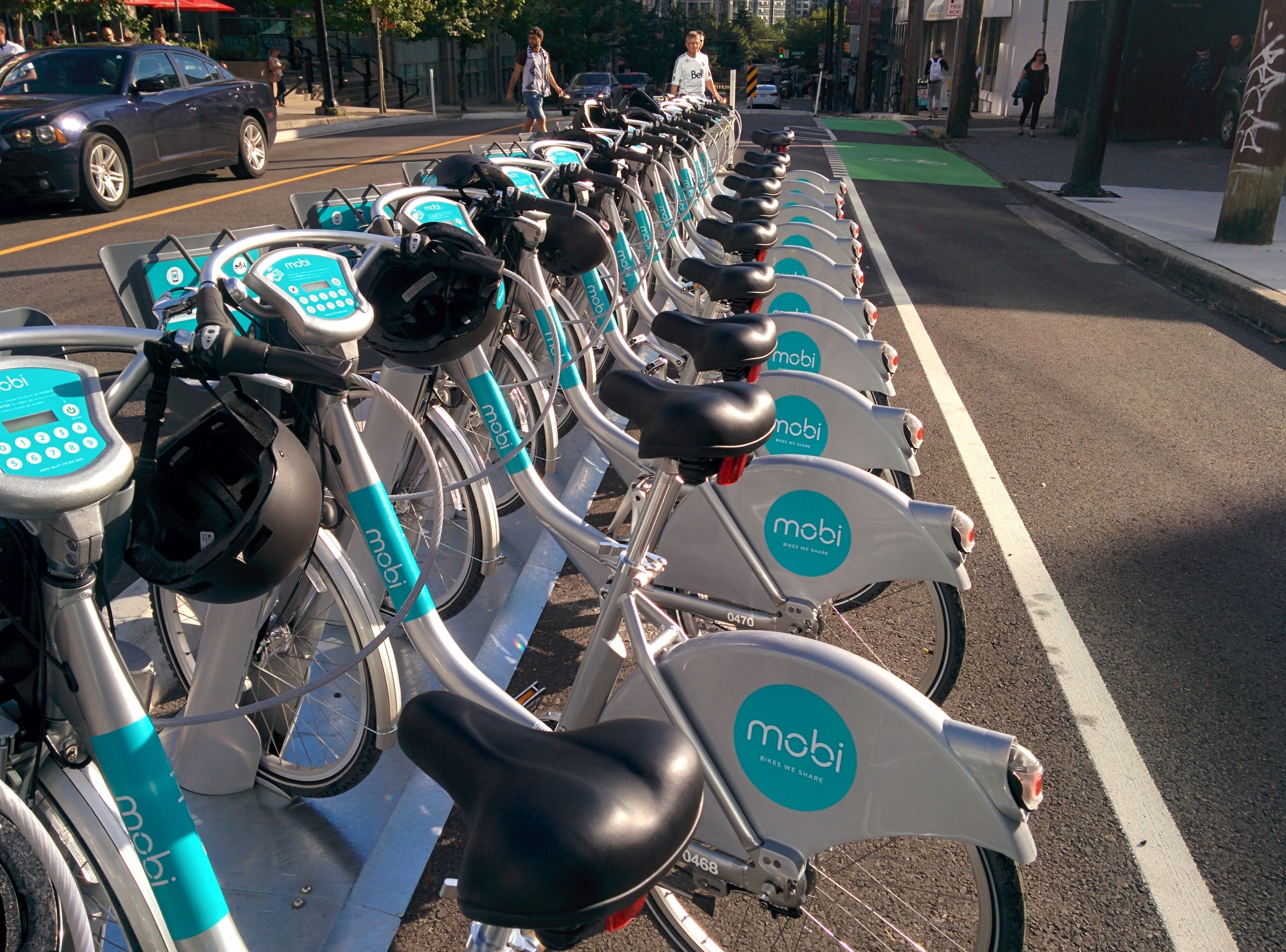 On the eve of the official launch of Mobi bike share in Vancouver, some bikes were placed in the stand near BC Place stadium in Downtown Vancouver